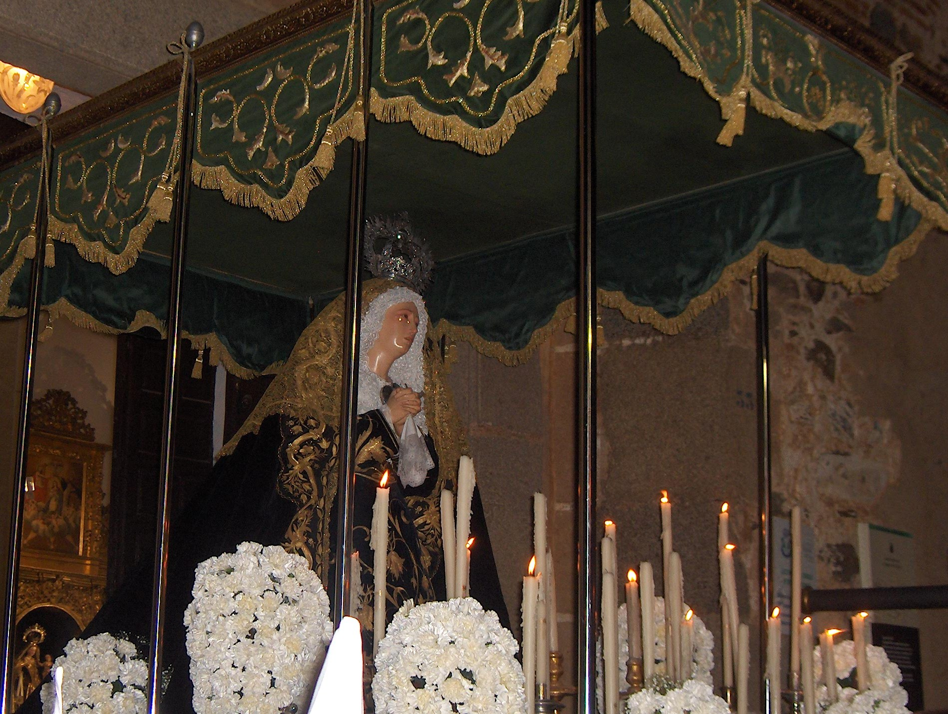 mayor dolor